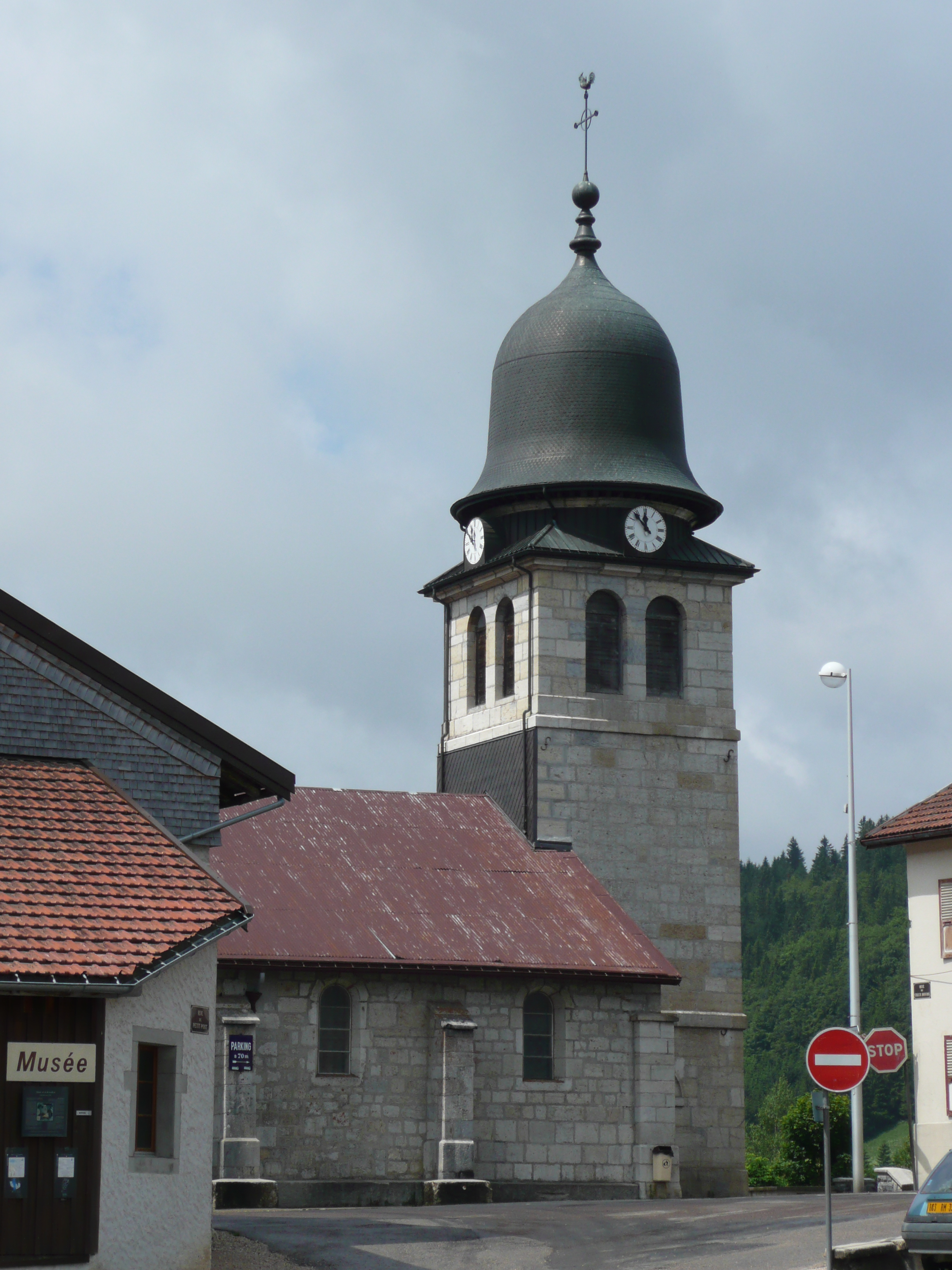 Church of Bois-d'Amont in the Jura department (east of France).